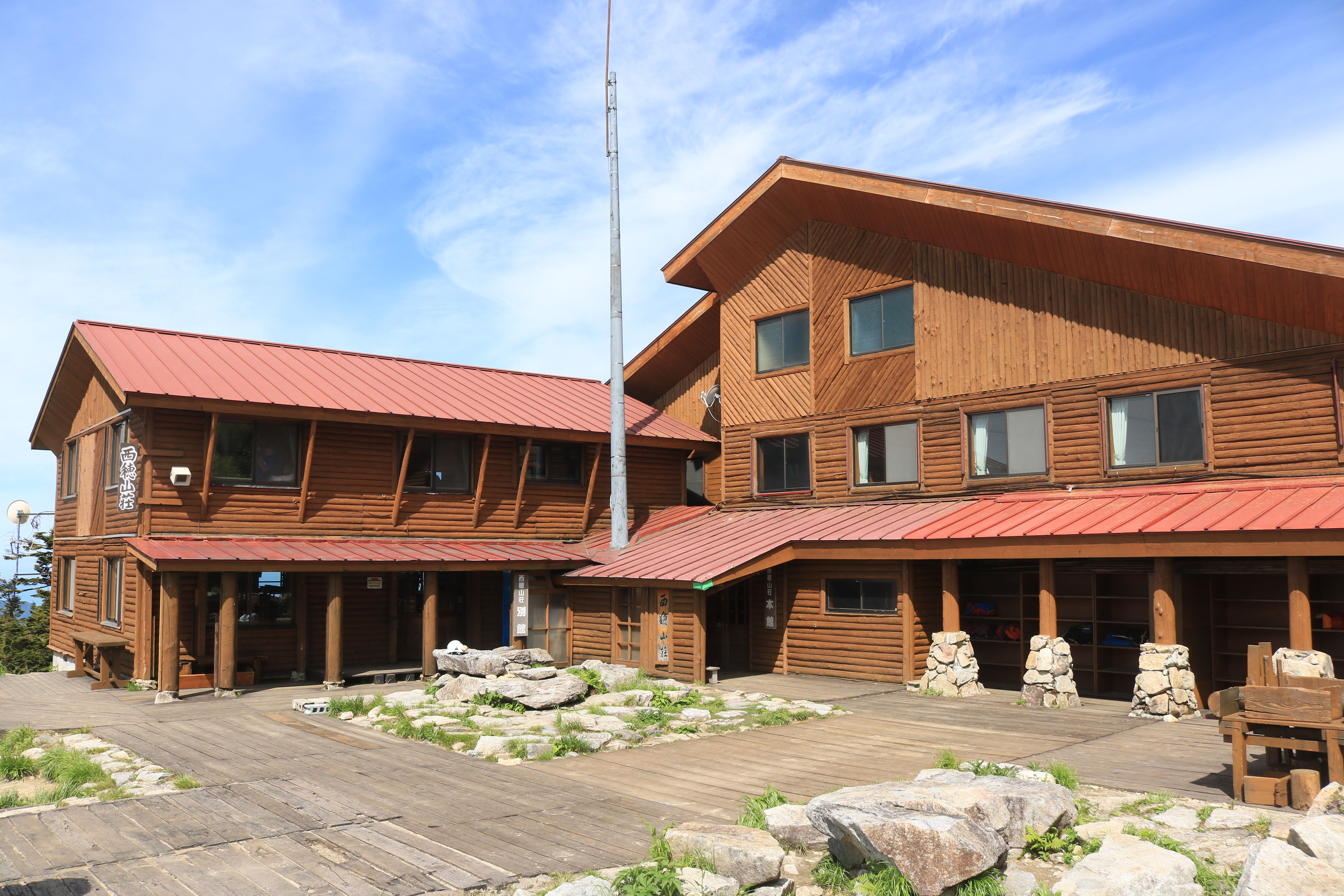 Nishiho Sanso in Mount Nishihotaka, Hida Mountains, Takayama, Gifu Prefecture, Japan.